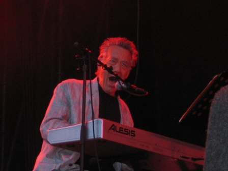 Ray Manzarek, Photo by D. van Bloppoel